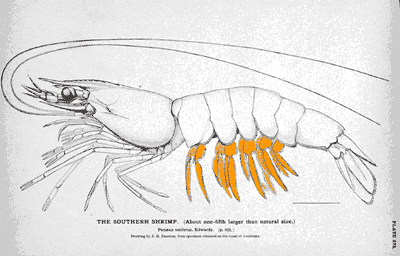 Diagram showing the pleopods of a prawn. Litopenaeus setiferus.